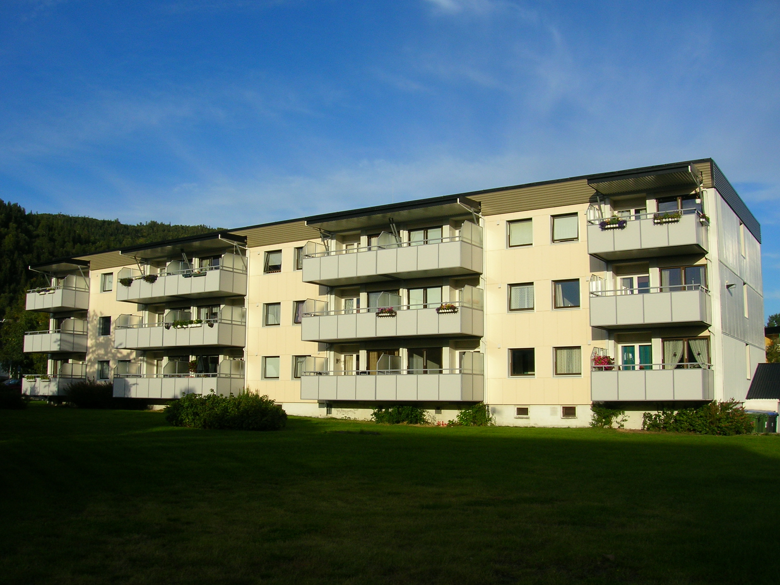 Ormenget housing cooperative on Selfors, north of Mo i Rana, Rana municipality, county of Nordland, Norway, Photo 4 September, 2007 with a Nikon Coolpix 5600 5,1 Megapixel camera.